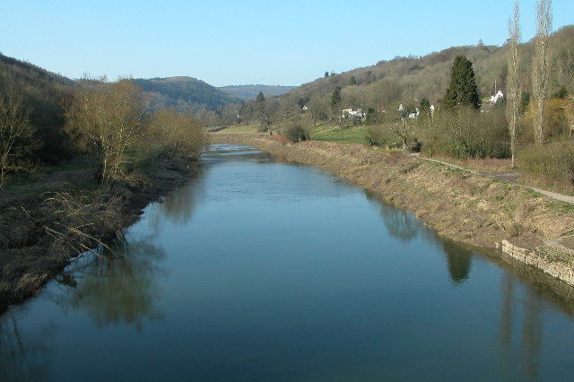 River Wye from Brockweir. The river Wye, looking upstream from the bridge at Brockweir. Between Monmouth and Chepstow the river flows through a beautiful wooded gorge on the western edge of the Forest of Dean. Along this gorge the river is followed by two LDPs, Offa's Dyke Path and the Wye Valley Walk.